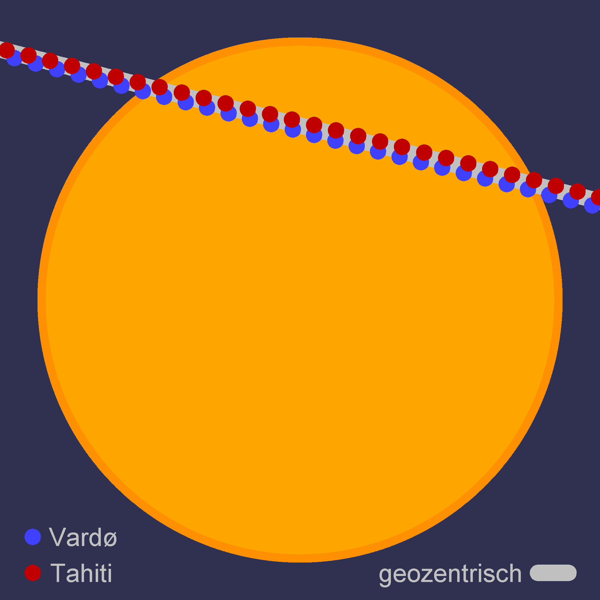 The diagram shows the positions of Venus against the solar disk during the transit of 1769 June 4, as seen from Tahiti (Pacific) and Vardø (Norway), and compared with the path seen by a hypothetical geocentric observer. As can be seen, the Tahiti chord lies to the north of the Vardø chord due to the Tahiti observer's position on the southern hemisphere. For the Tahiti observer, Venus thus cuts a shorter chord across the Sun, allowing the parallactic shift to be measured by _timing_ ingress and egress (time could already be measured very precisely in the 18th cty). Furthermore, Venus appears to move quicker across the Sun for the Tahiti observer, because the Tahiti observer - being closer to the equator on the rotating Earth - travels through a longer arc during the observation. Thus, for the Tahiti observer ingress is later and egress earlier than for the Vardø observer - in addition to the other effect described above. Thus the parallax for each observer can be measured by timing ingress and egress, rather than using angular measurements. Combining parallax measurements of several observers at known locations on the Earth, Venus' distance can be triangulated. Coordinates of Venus and Sun created with GUIDE 8 at twenty-minute intervals, plotted with a custom program.